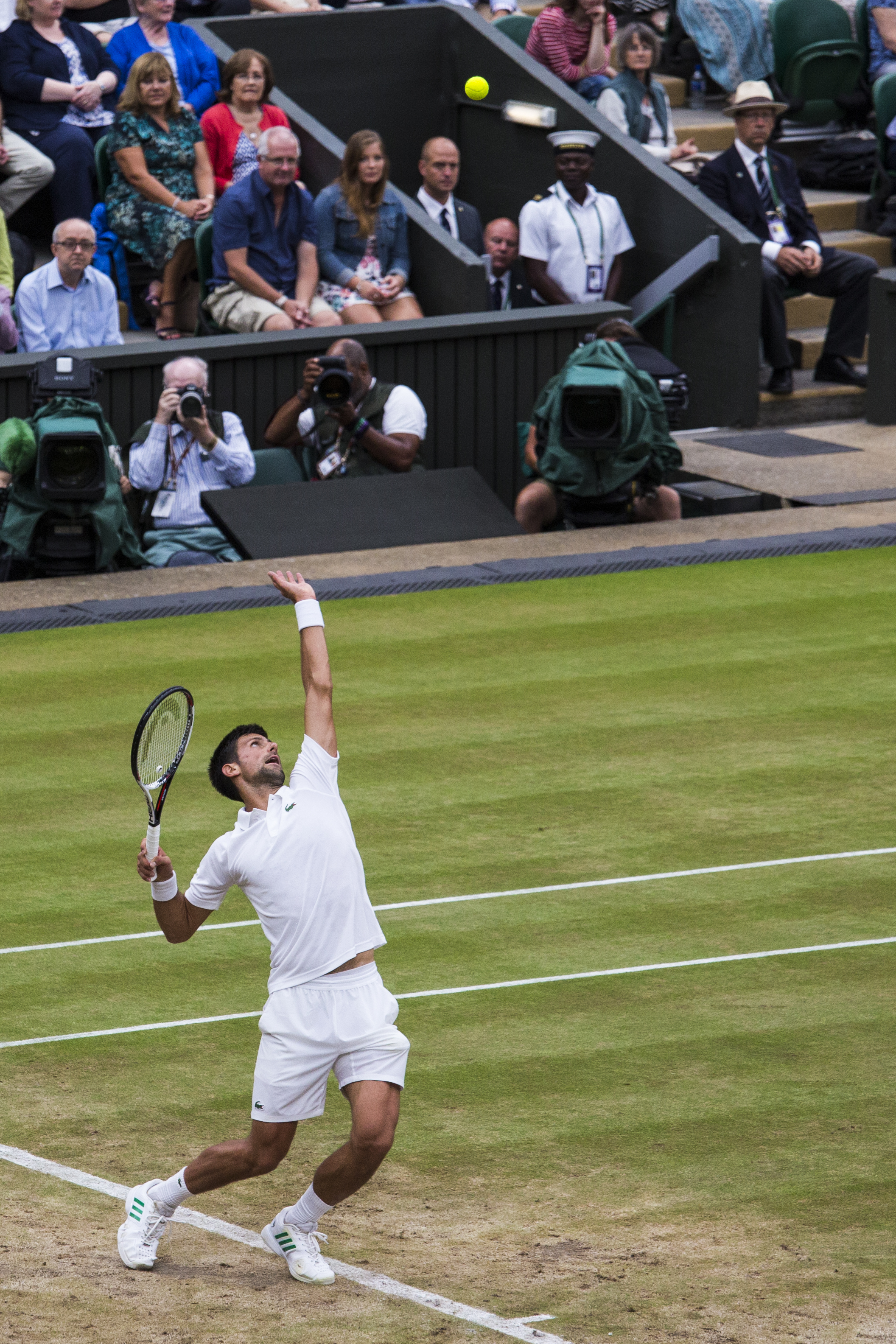 Wimbledon 2017